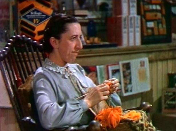 Screenshot of Margaret Hamilton from the film Nothing Sacred.